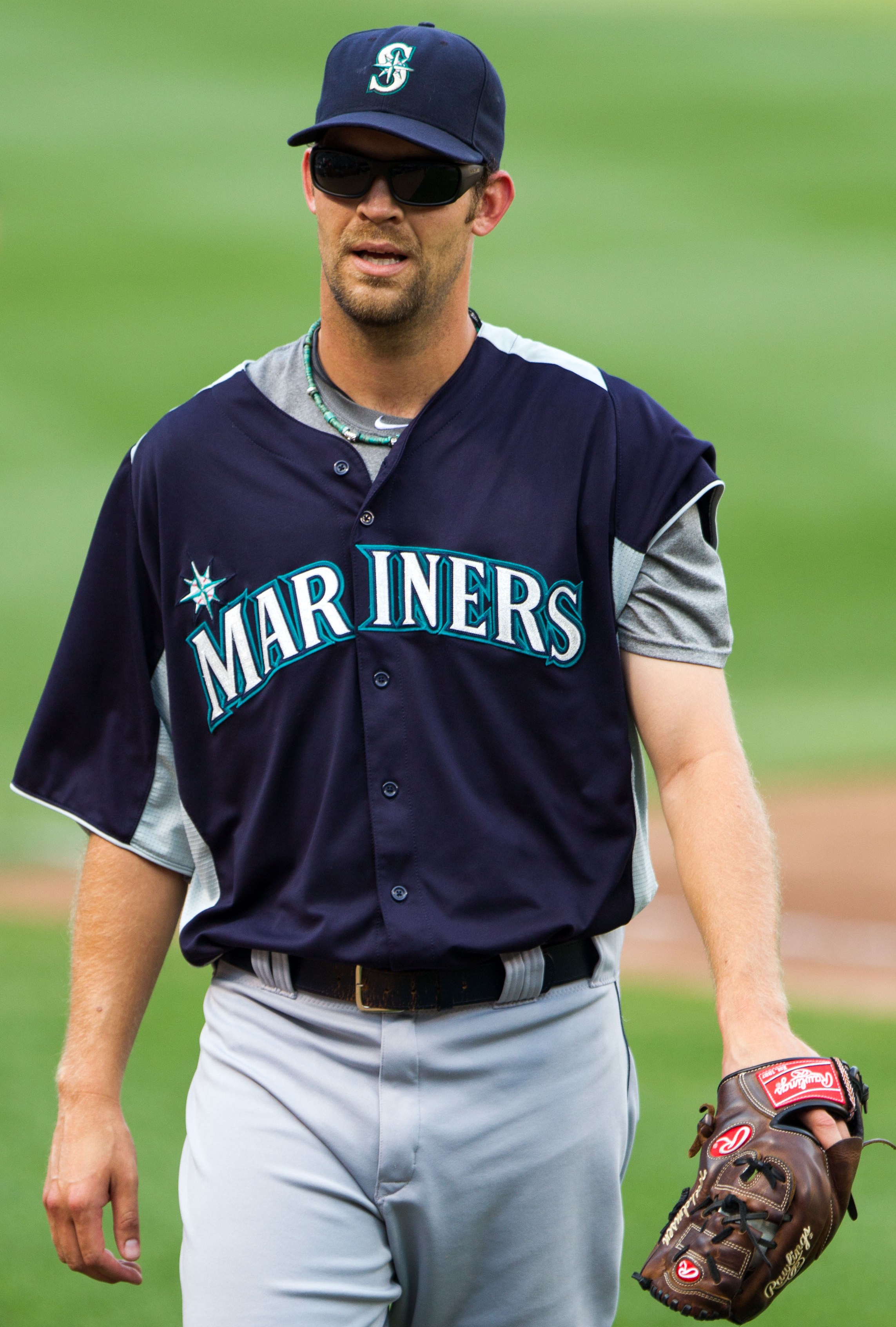 Mariners at Orioles August 6, 2012